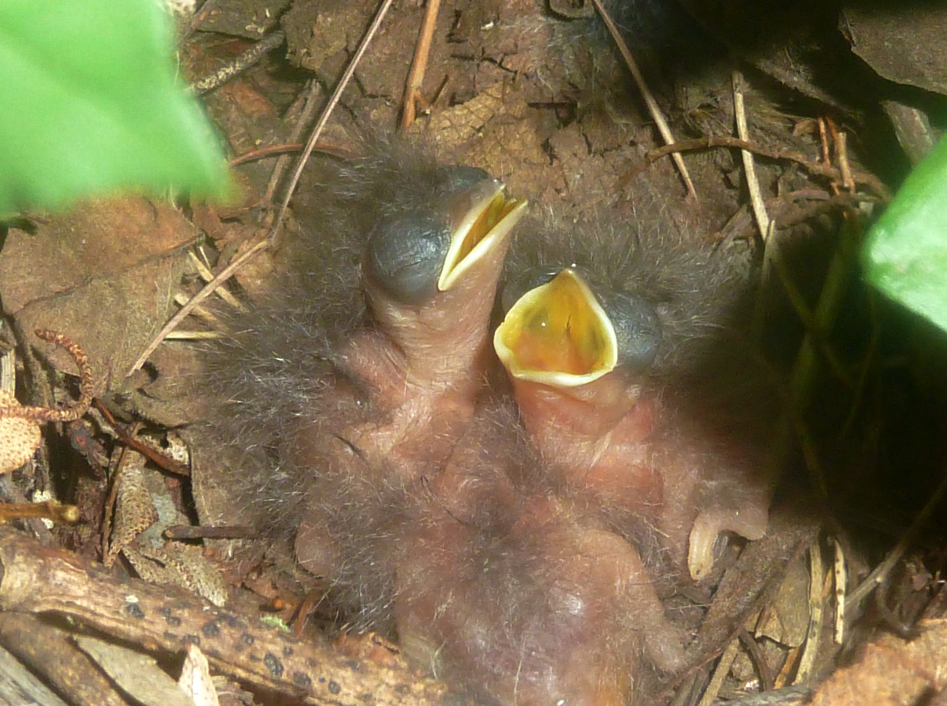 Three chicks of a White-throated robin-chat pair in a nest on the ground, under the canopy of a tree, hidden by green ground cover, near a farm house at Elandsfontein, Waterberg, Limpopo.